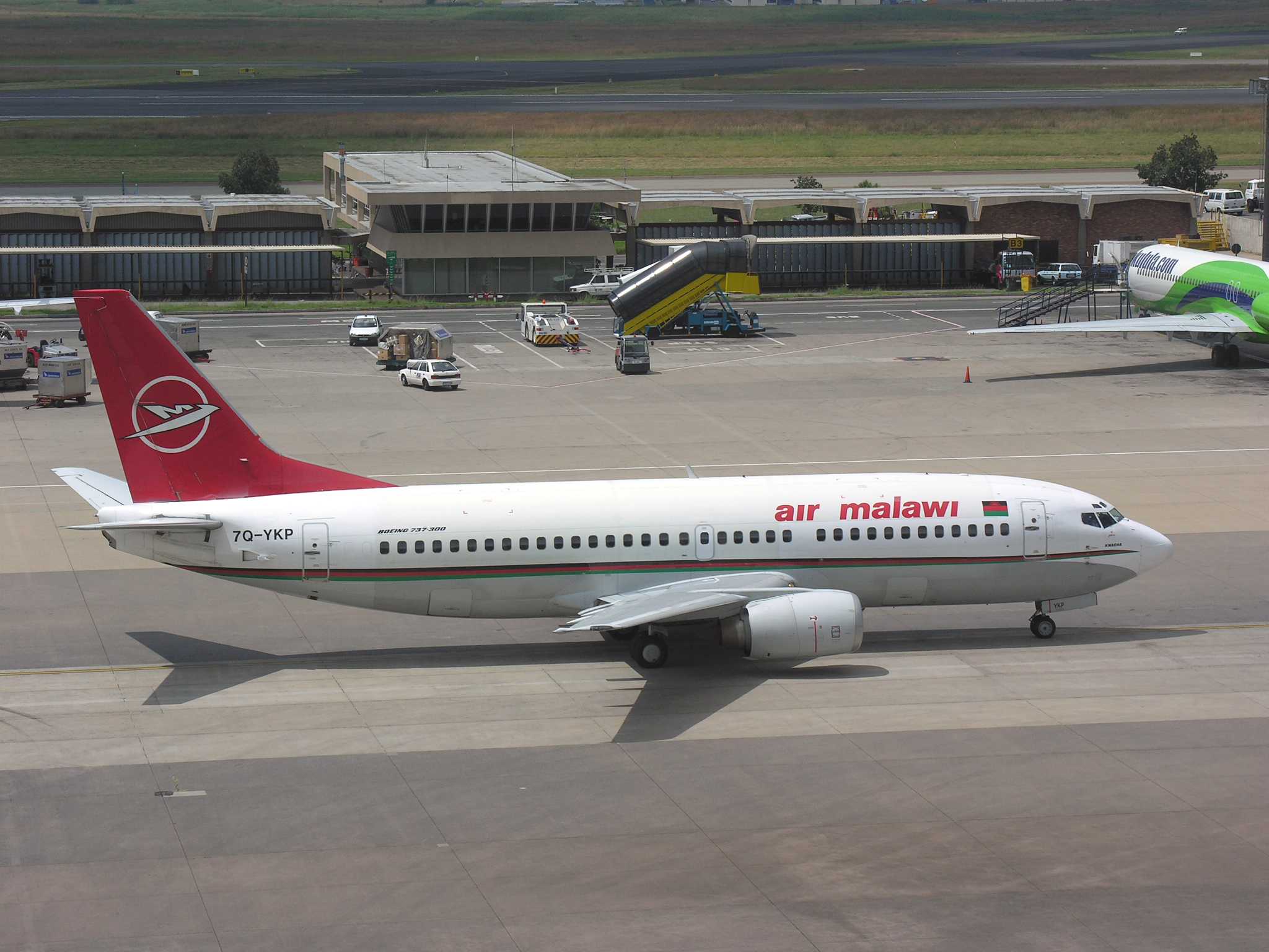 South Africa, Air Malawi Boeing 737-33A taxiing at Johannesburg's O.R. Tambo International Airport